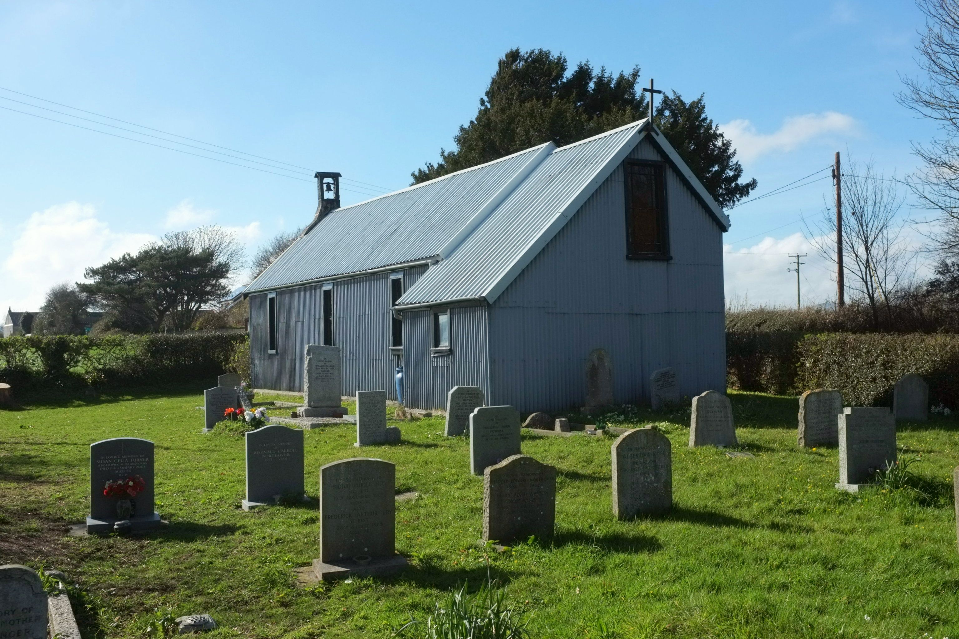 St Saviour's Church, Dottery, Dorset